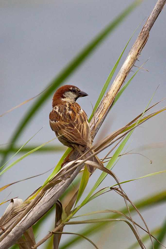 A male Italian Sparrow photographed in Crete